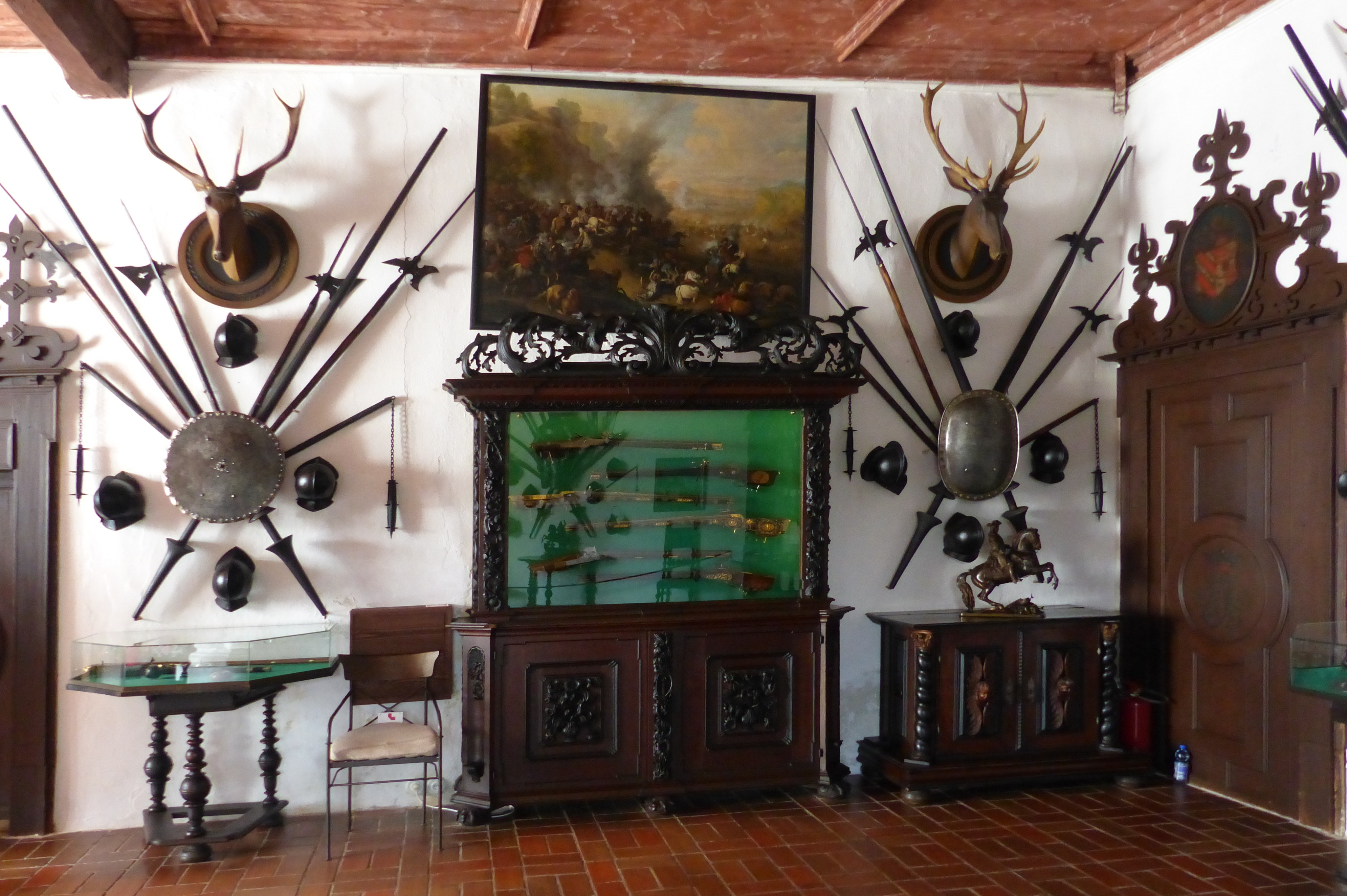 Rožmberk ( Czech Republic ). Lower castle - Armoury ( 19th century )